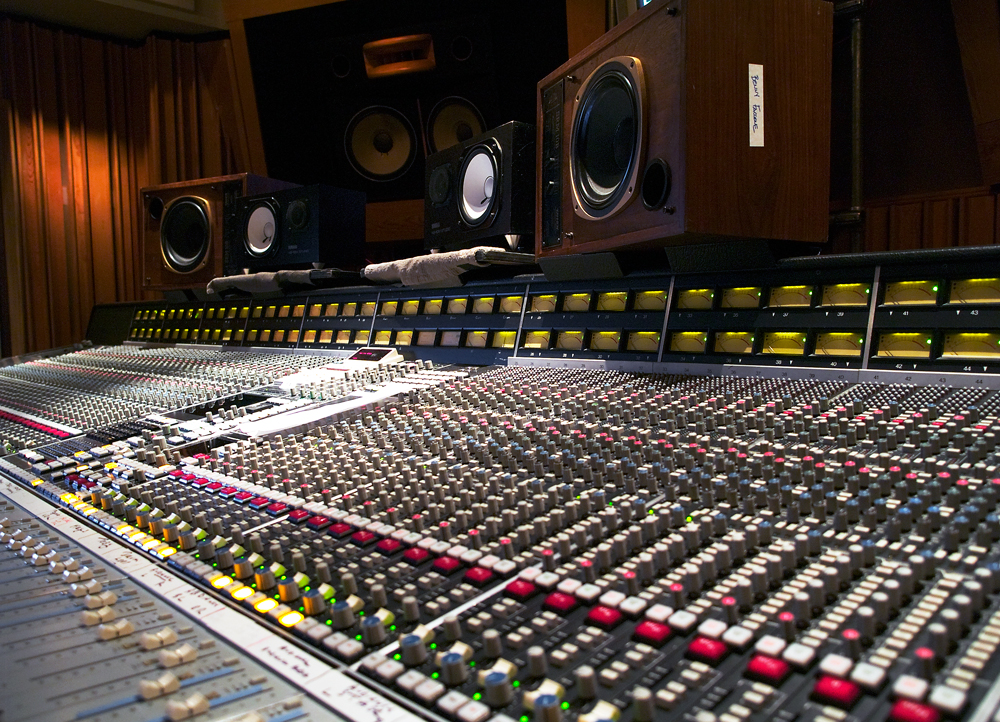 SSL SL 6072E/G at Henson Recording Studios's mixroom monitors Augspurger main monitors TANNOY YAMAHA NS-10M